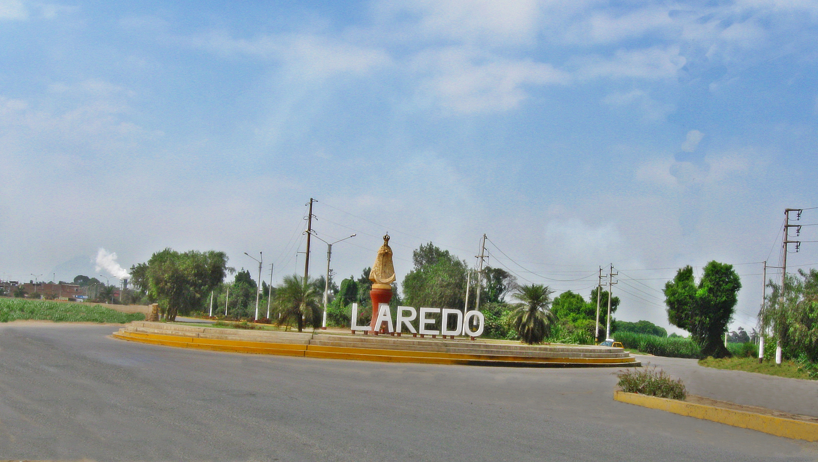 Ovalo al ingreso de Laredo